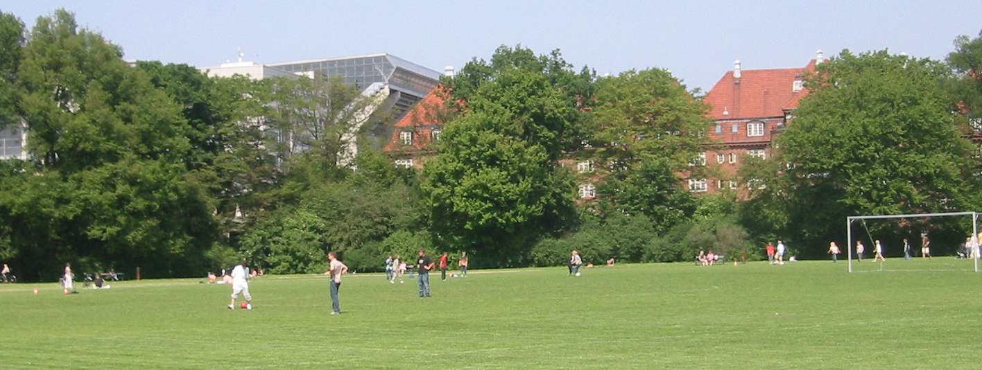 Fælledparken behind the Parken national football stadium, Copenhagen.